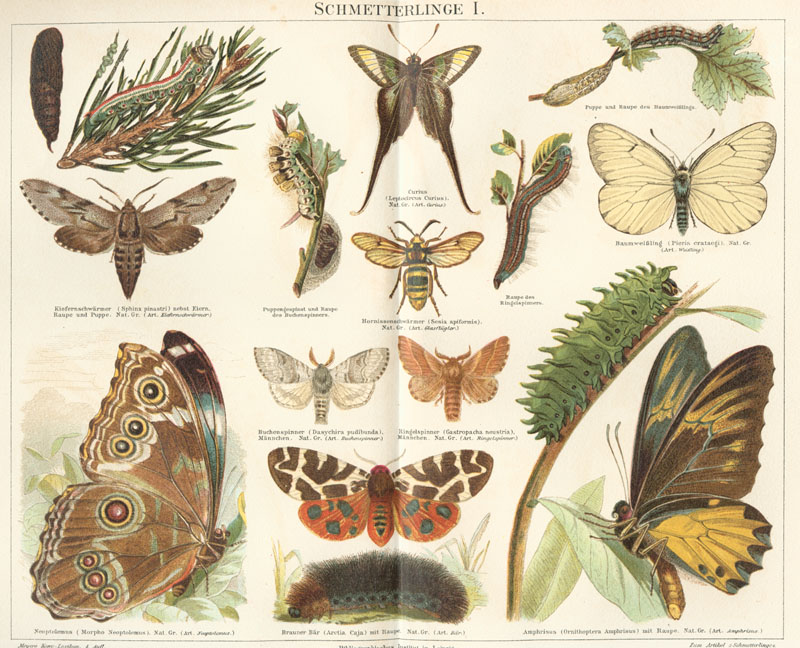 butterflies I.